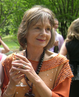 Irena Sibley at farm in Flowerdale